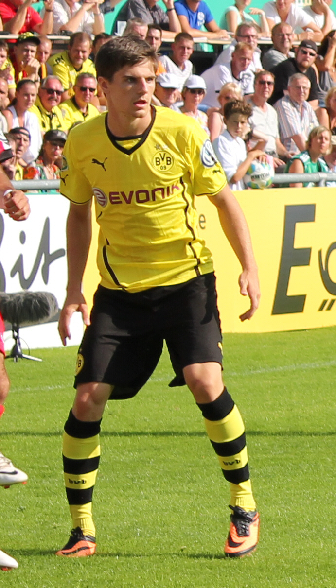 Jonas Hofmann 2013 in Wilhelmshaven